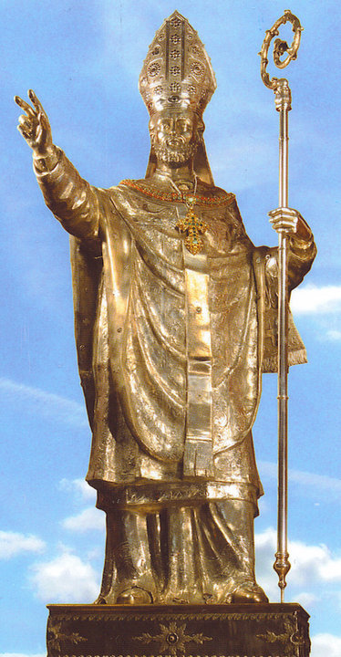 Statue of St. Catadlo by Virglio Mortet